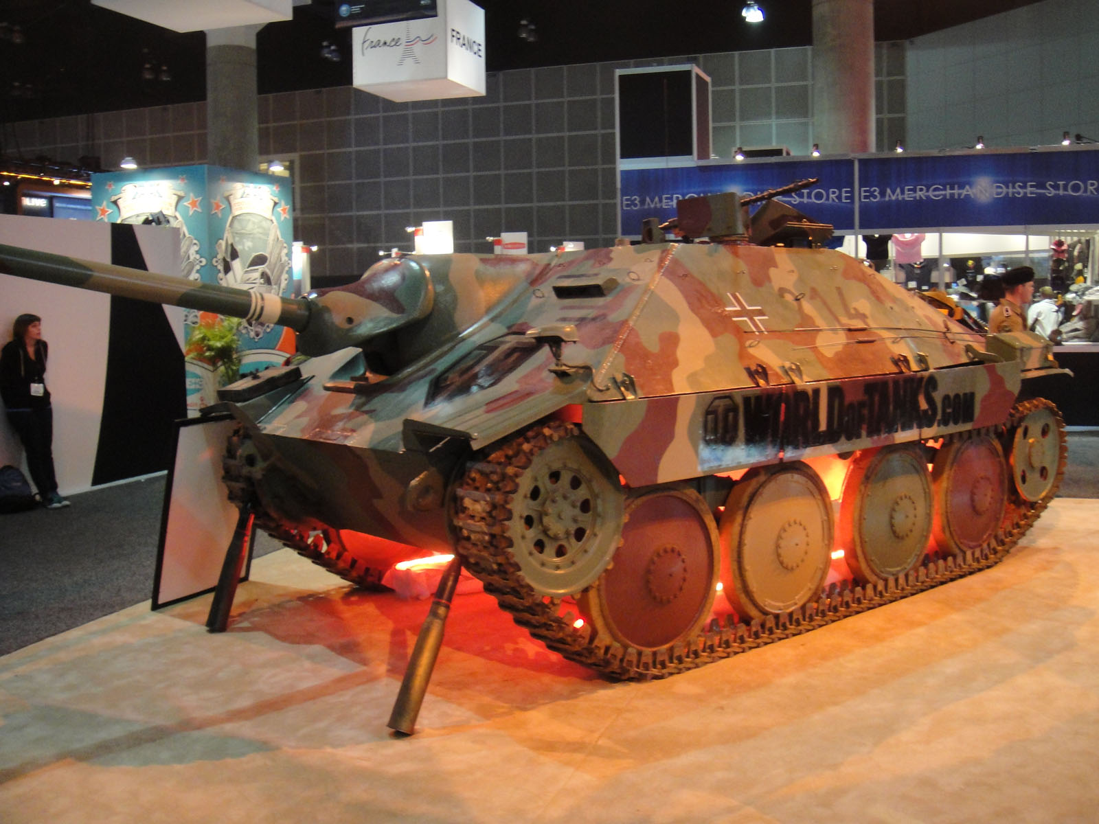 photo 2011 taken by Doug Kline If you're interested in higher resolution versions of my images, contact me via my profile page.